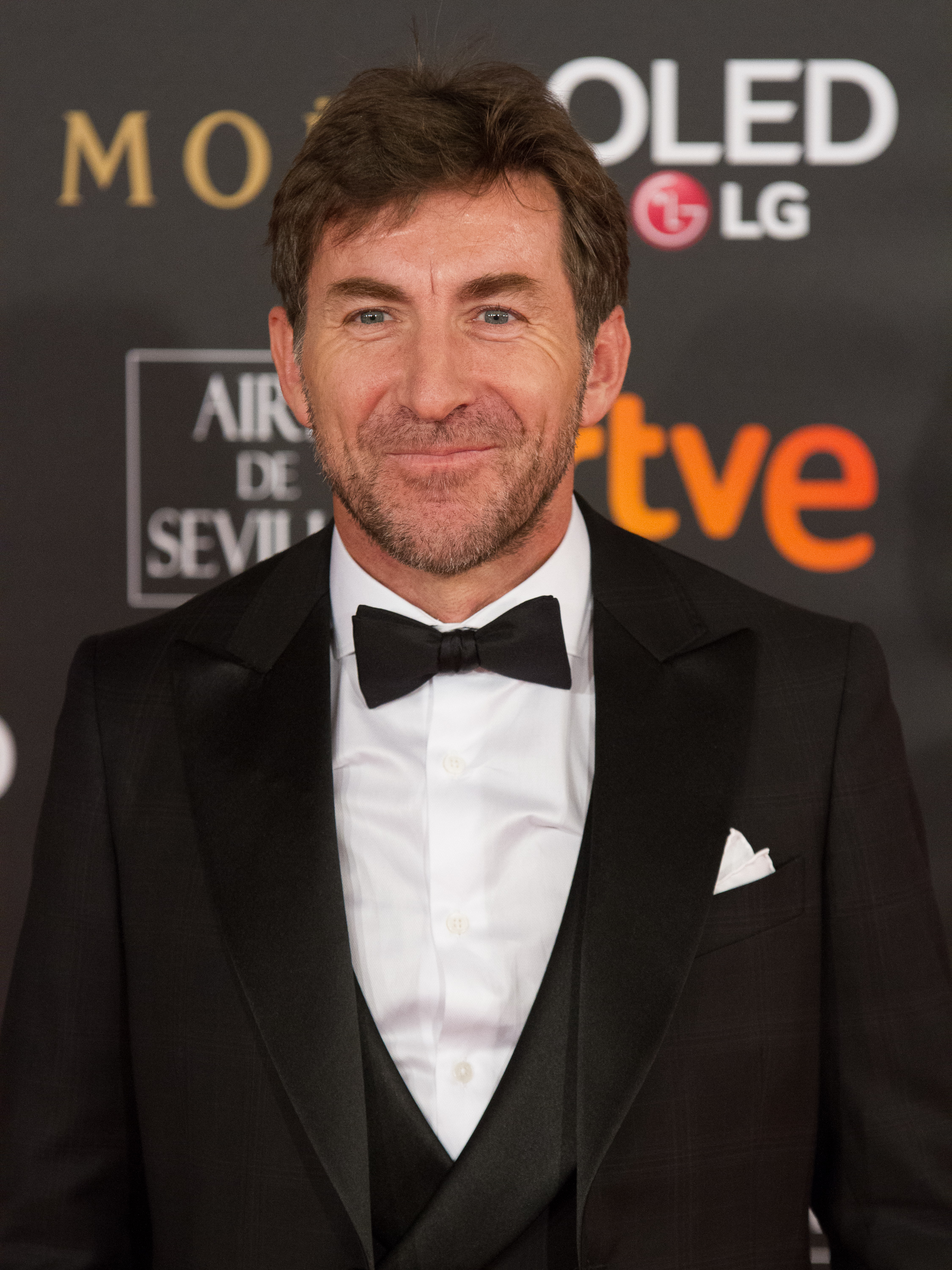 32nd Goya Awards, 2018.